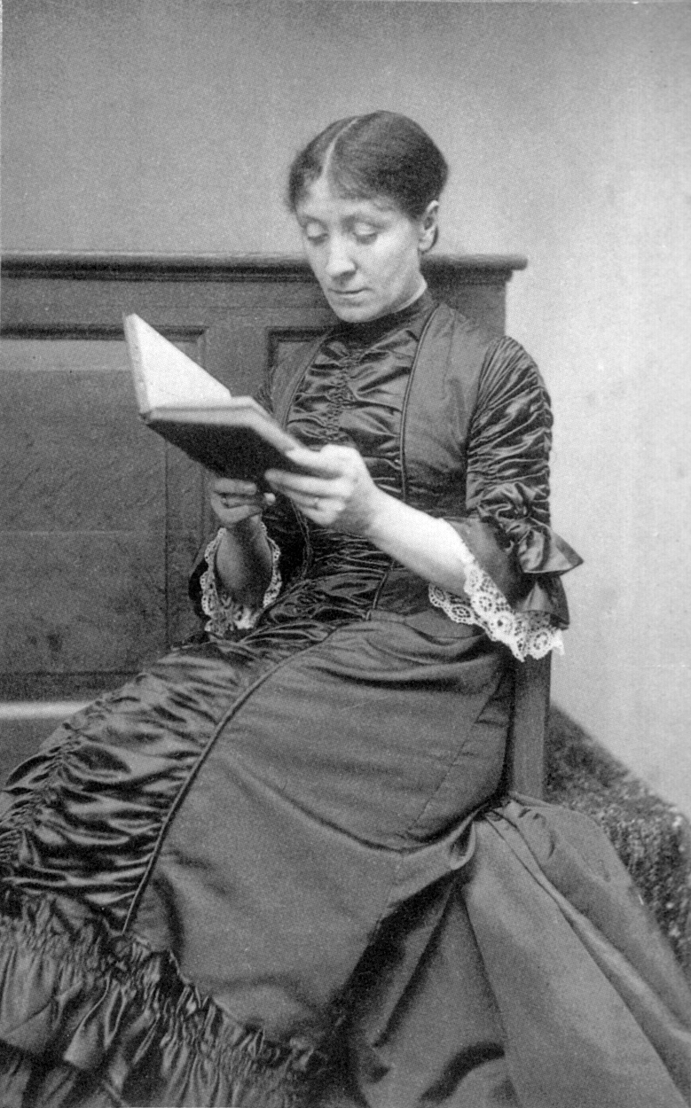 Platinum print photographic portrait of Georgiana Burne-Jones, c. 1882